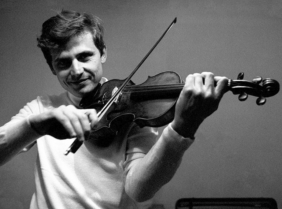 Italian violinist Uto Ughi (Diodato Emilio Ughi) playing the violin. Val Badia, January 1970